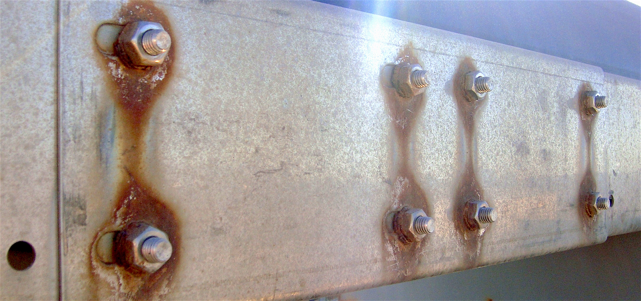 Galvanic corrosion due to differing anodic index between the bolts and the plate